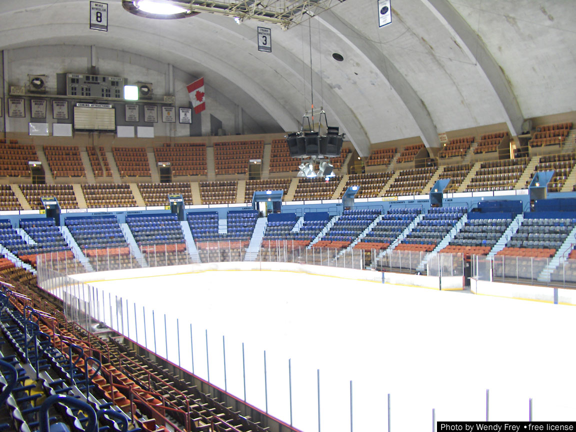 Interior photo of the HersheyPark Arena in Hershey, PA